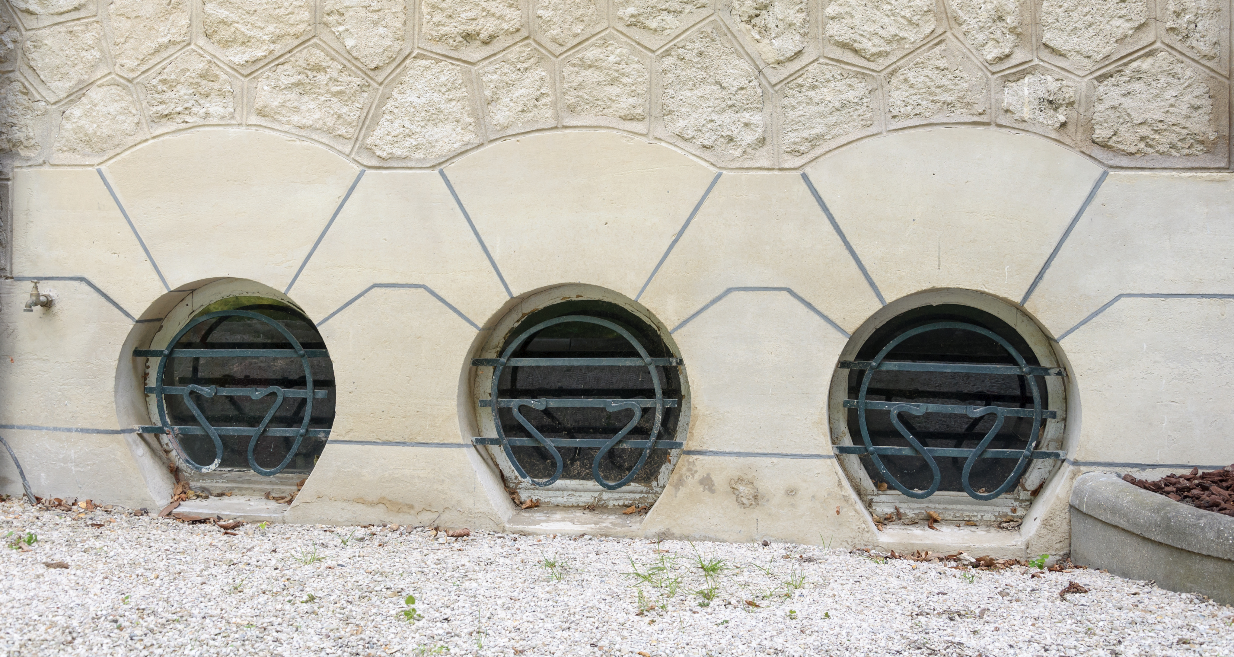 Villa Berthe, also known as La Hublotière, in Le Vésinet, Yvelines, France, work of the architect Hector Guimard. Round windows in shape of portholes at the bottom of the right side facade.